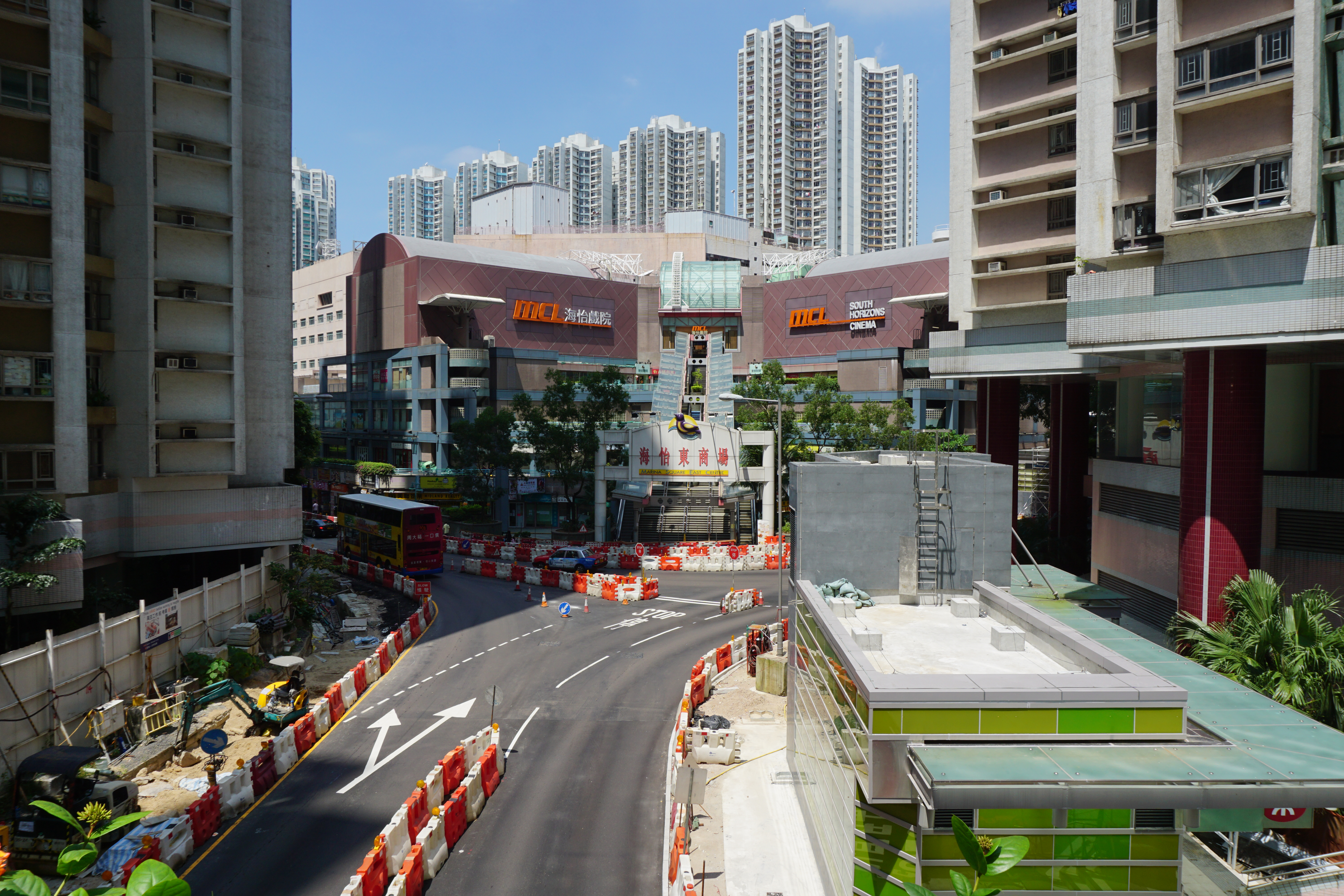 South Horizons Station in Ap Lei Chau, Hong Kong.